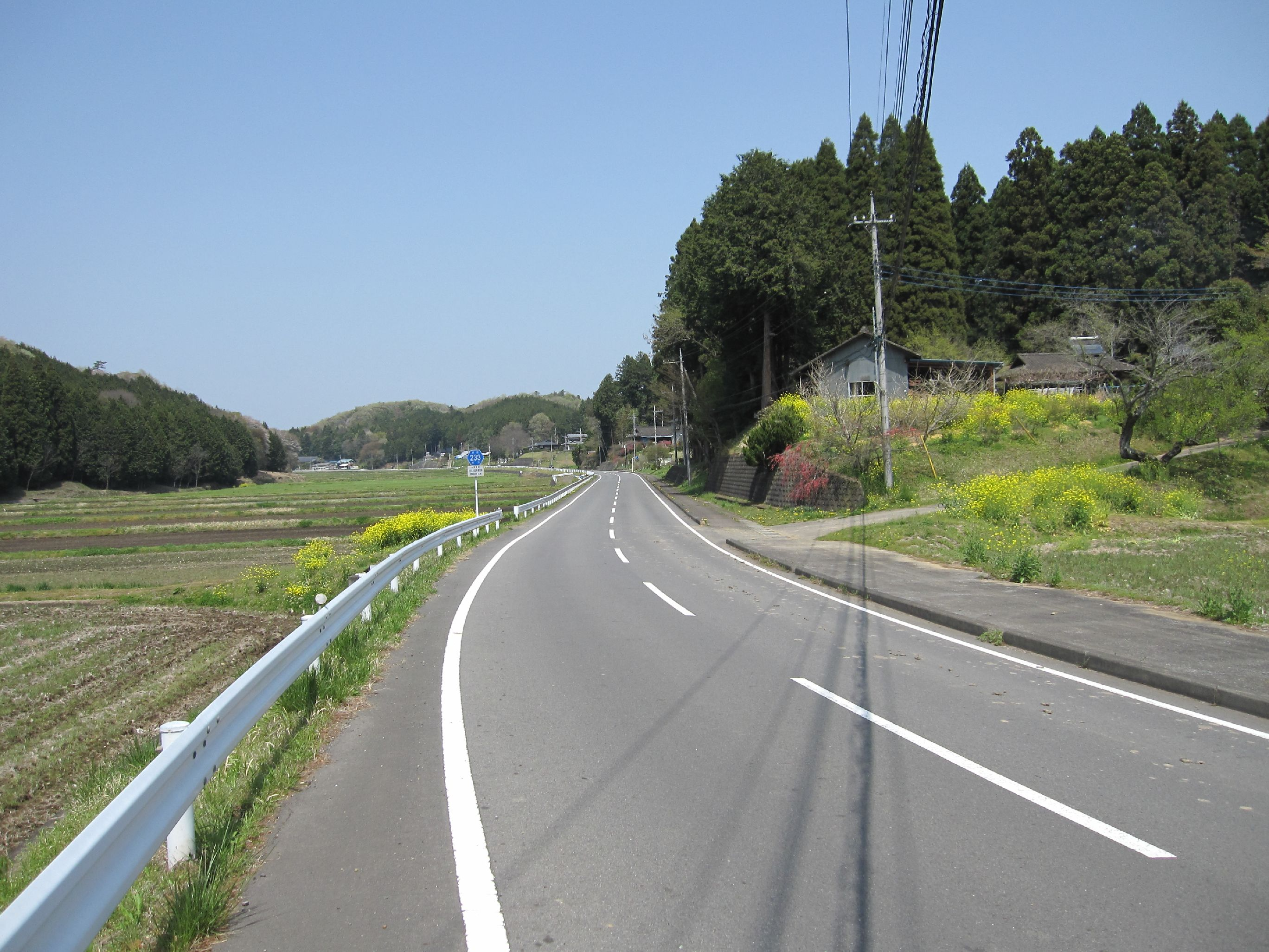 Tochigi prefectural road No.233 on Nasukarasuyama city